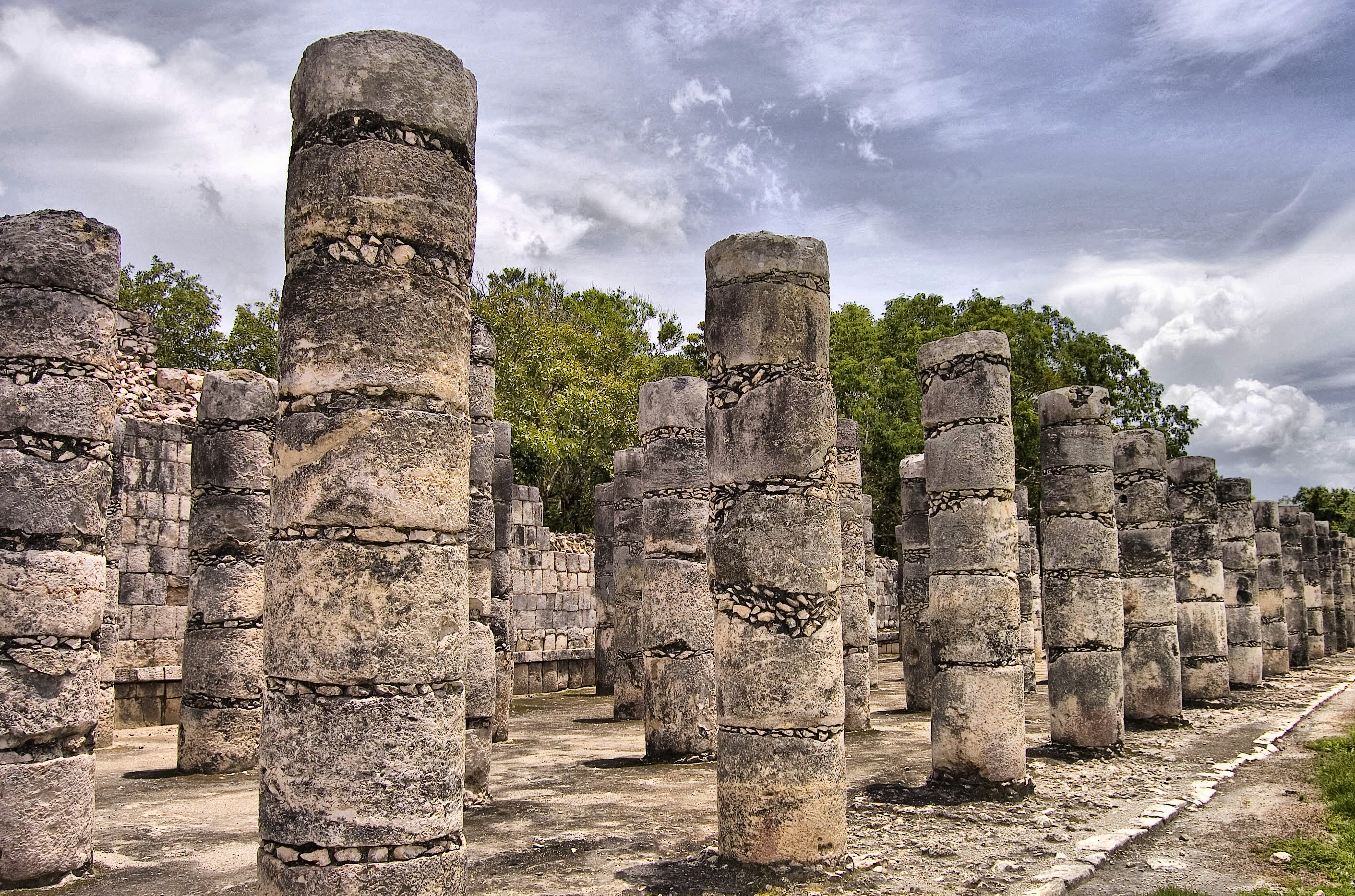 Temple of the Warriors and the Thousand Columns at Chichen Itza